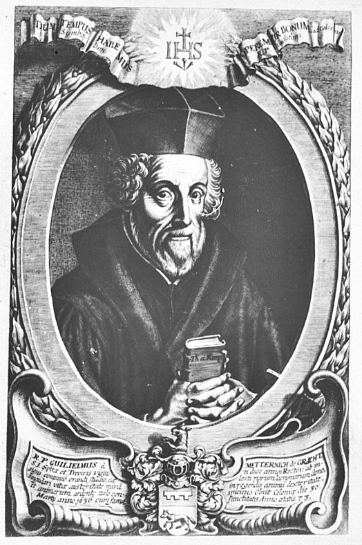 Porträt Pater Wilhelm Wolff von Metternich zur Gracht, Jesuit, Rektor des Kollegs in Speyer